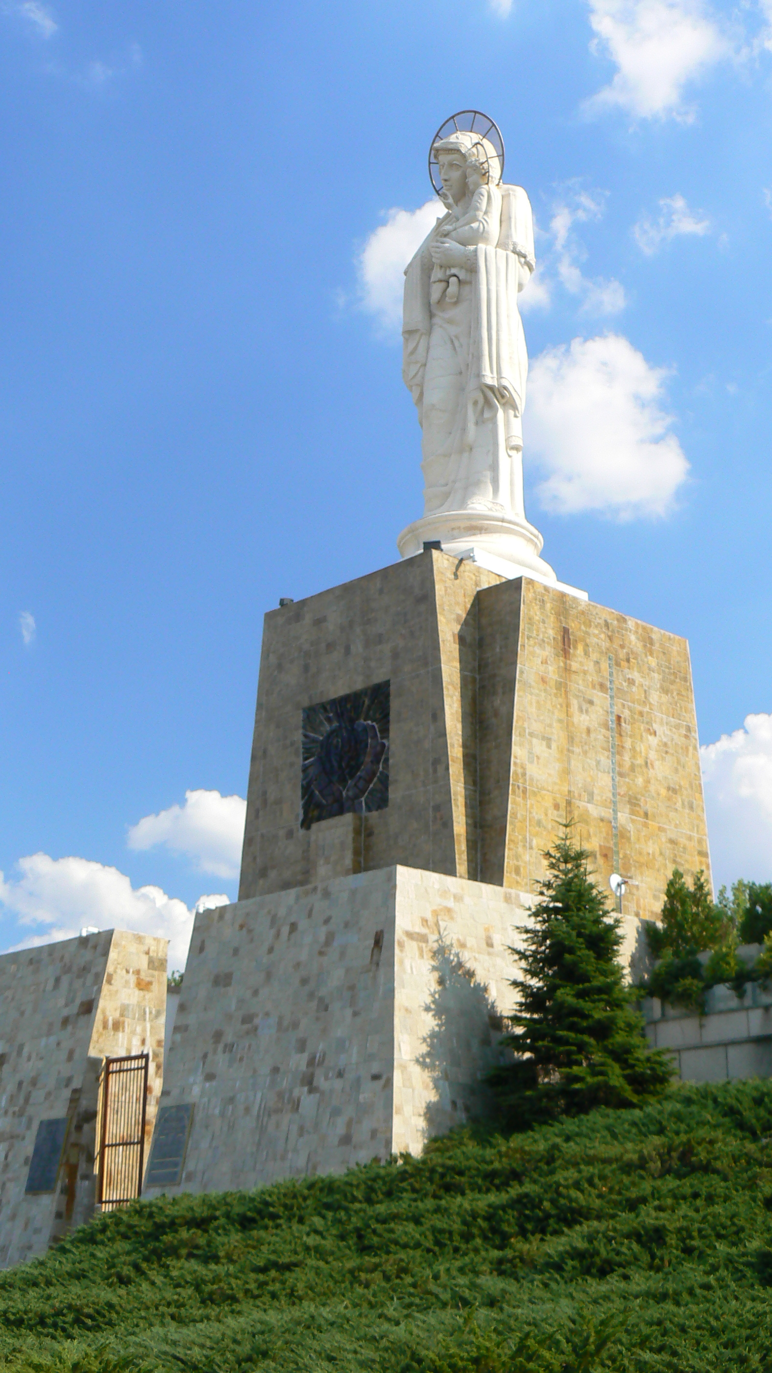 Monument of Virgin Mary, Haskovo. The statue and the chapel, as seen from the right side